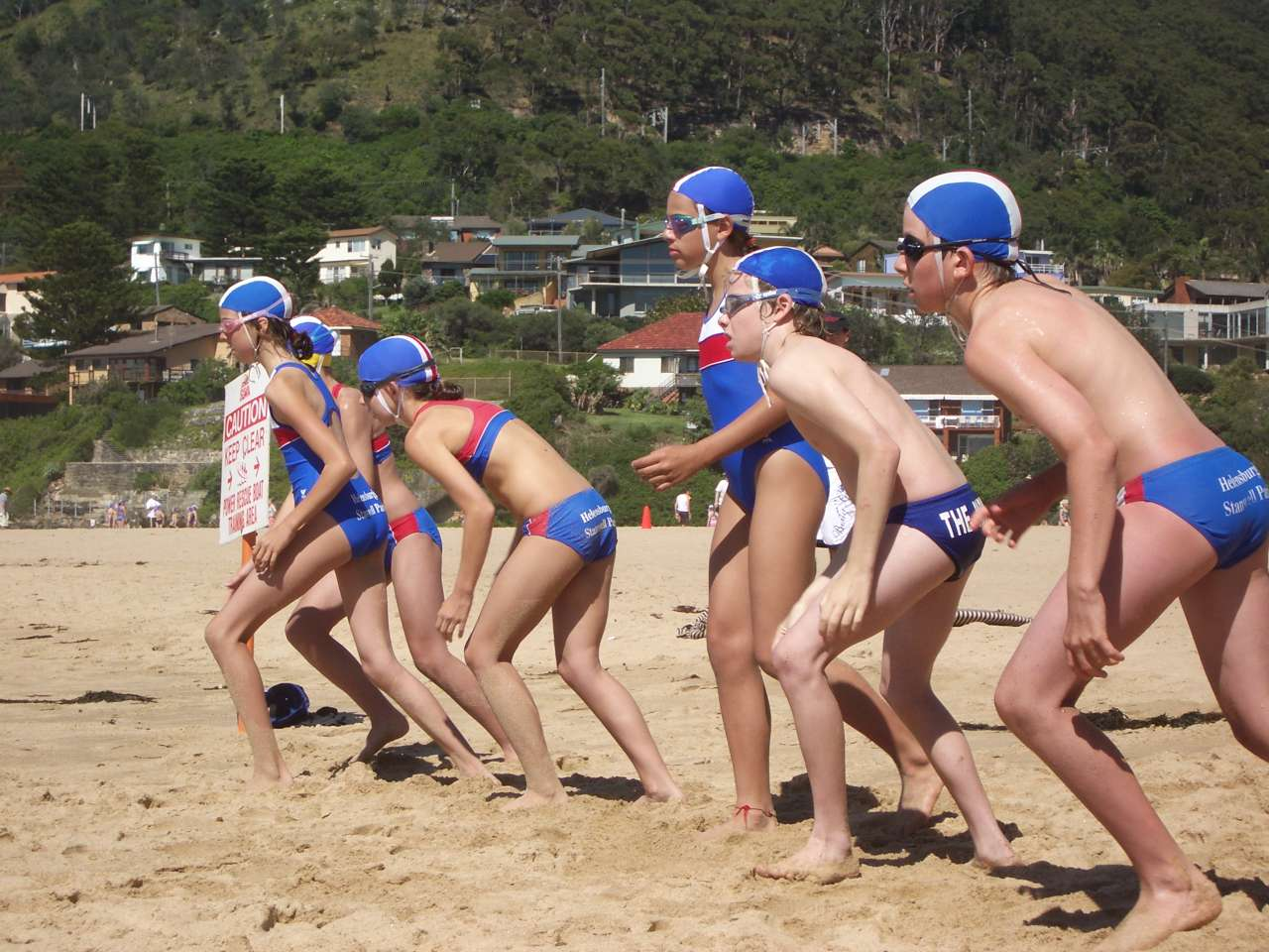 Nippers at start position before their swim in Stanwell Park, dressed in the Helensburgh-Stanwell Park Surf Life Saving Club uniform of their SLSC. Author: Klaus-Dieter Liss Date: 13.11.2005